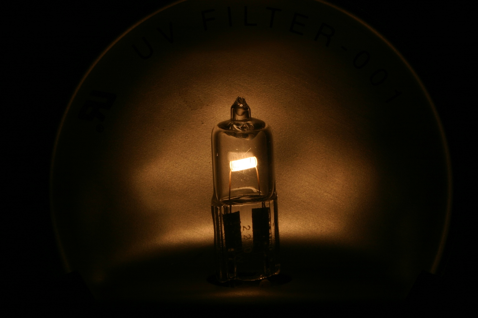 Halogen bulb w/ reflector. Author: Stefan Wernli